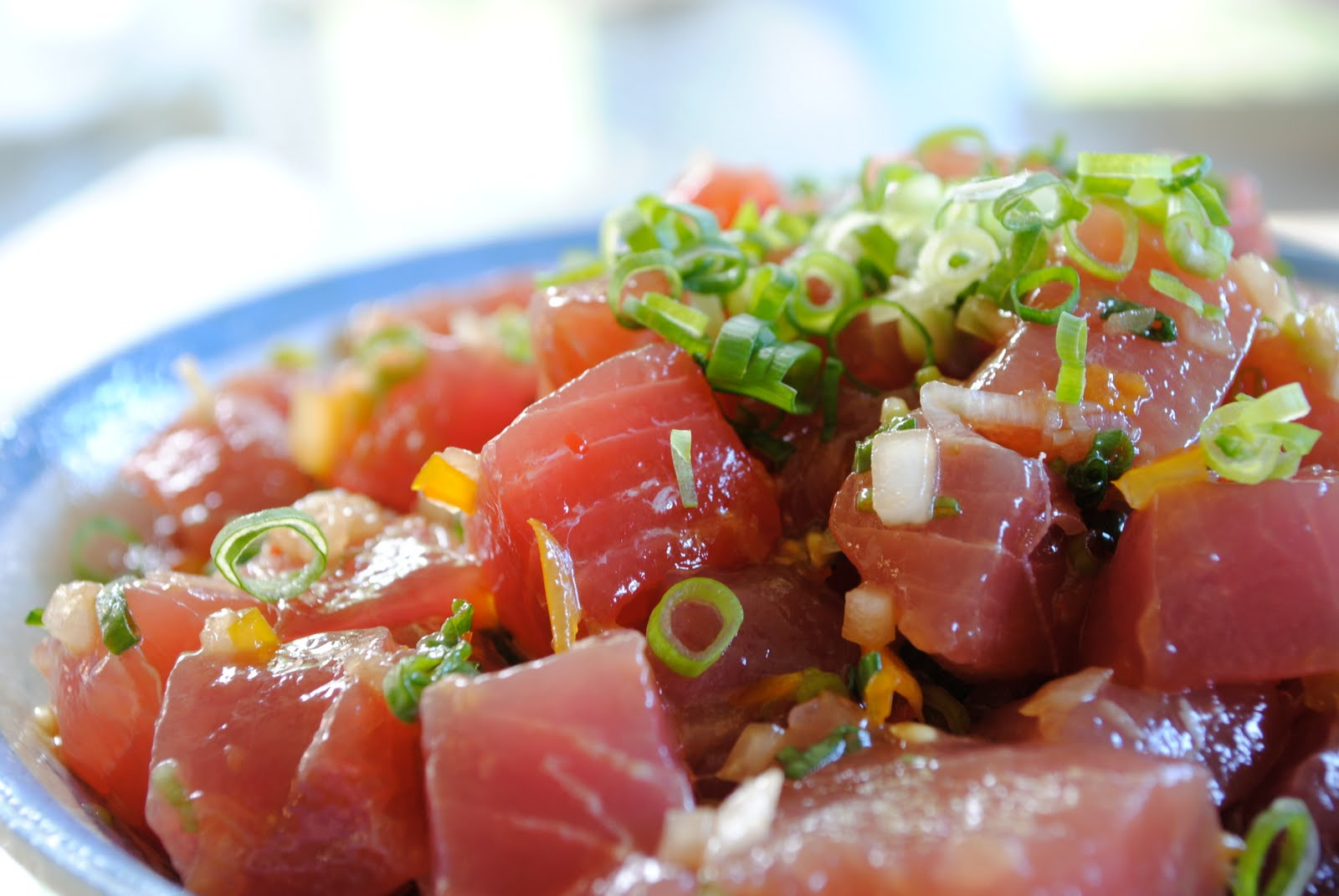 Ahi tuna Poke with onions seseme seed oil and soy sauce